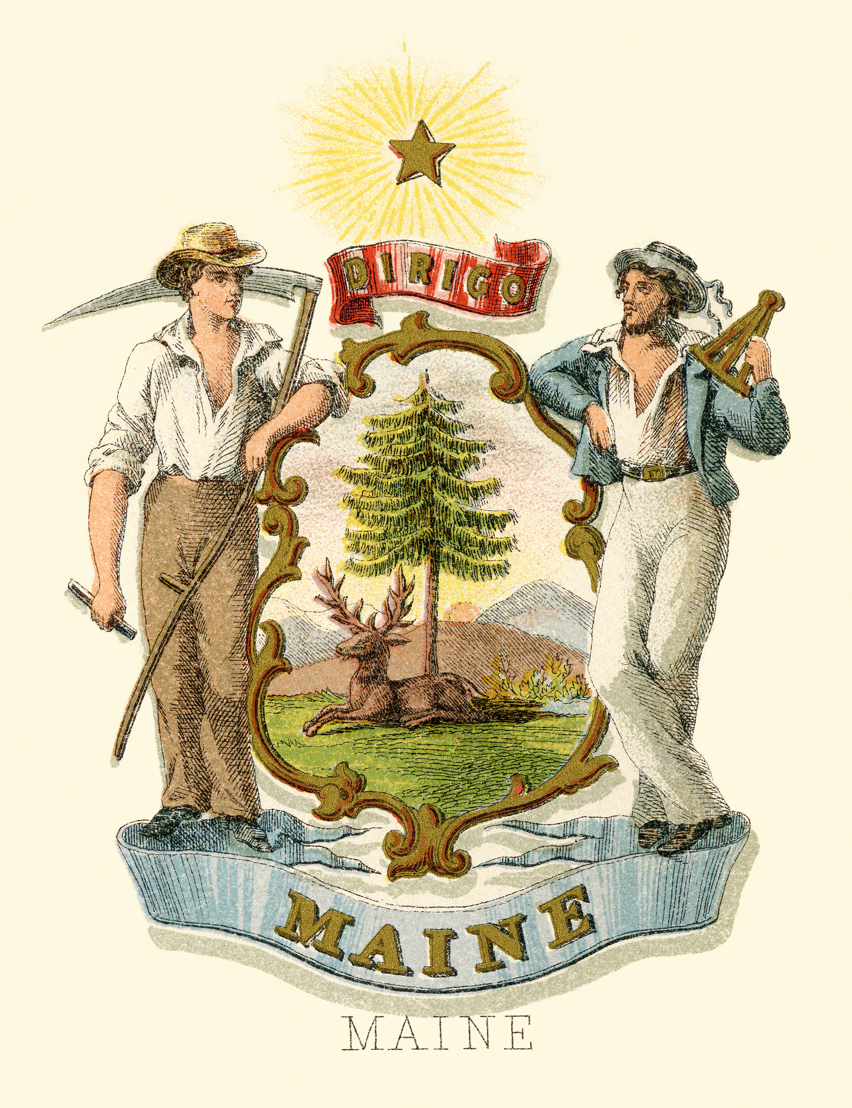 Maine coat of arms